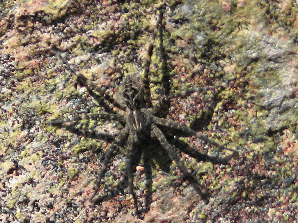 Fishing Spider (Dolomedes tenebrosus), Quetico Park, Ontario